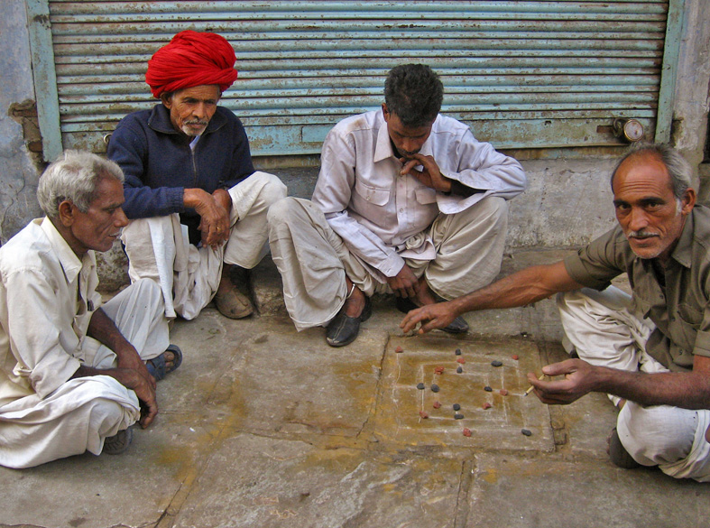 Nav Bara (9 by 12) board game being played on the sidewalk in Manek Chowk, Ahemdabad